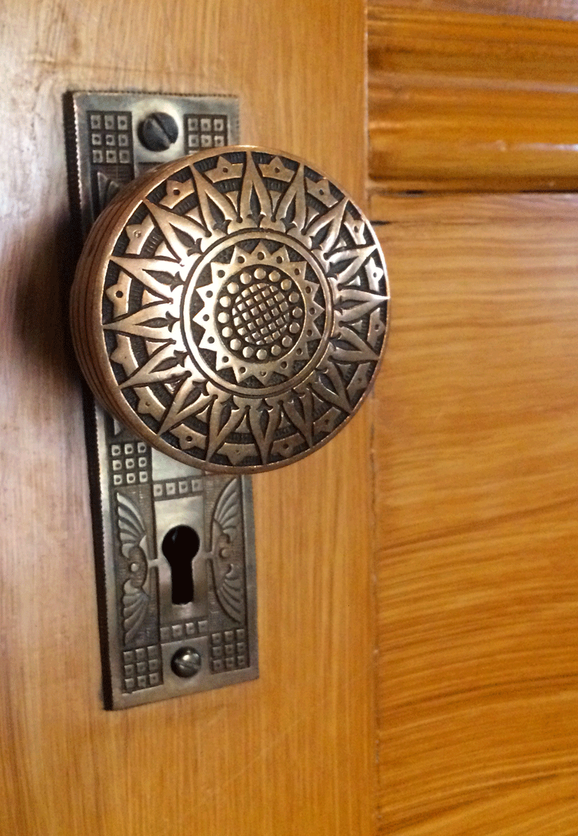 Molly Brown House interior doorknob, Denver CO USA, April 2019, PNG file